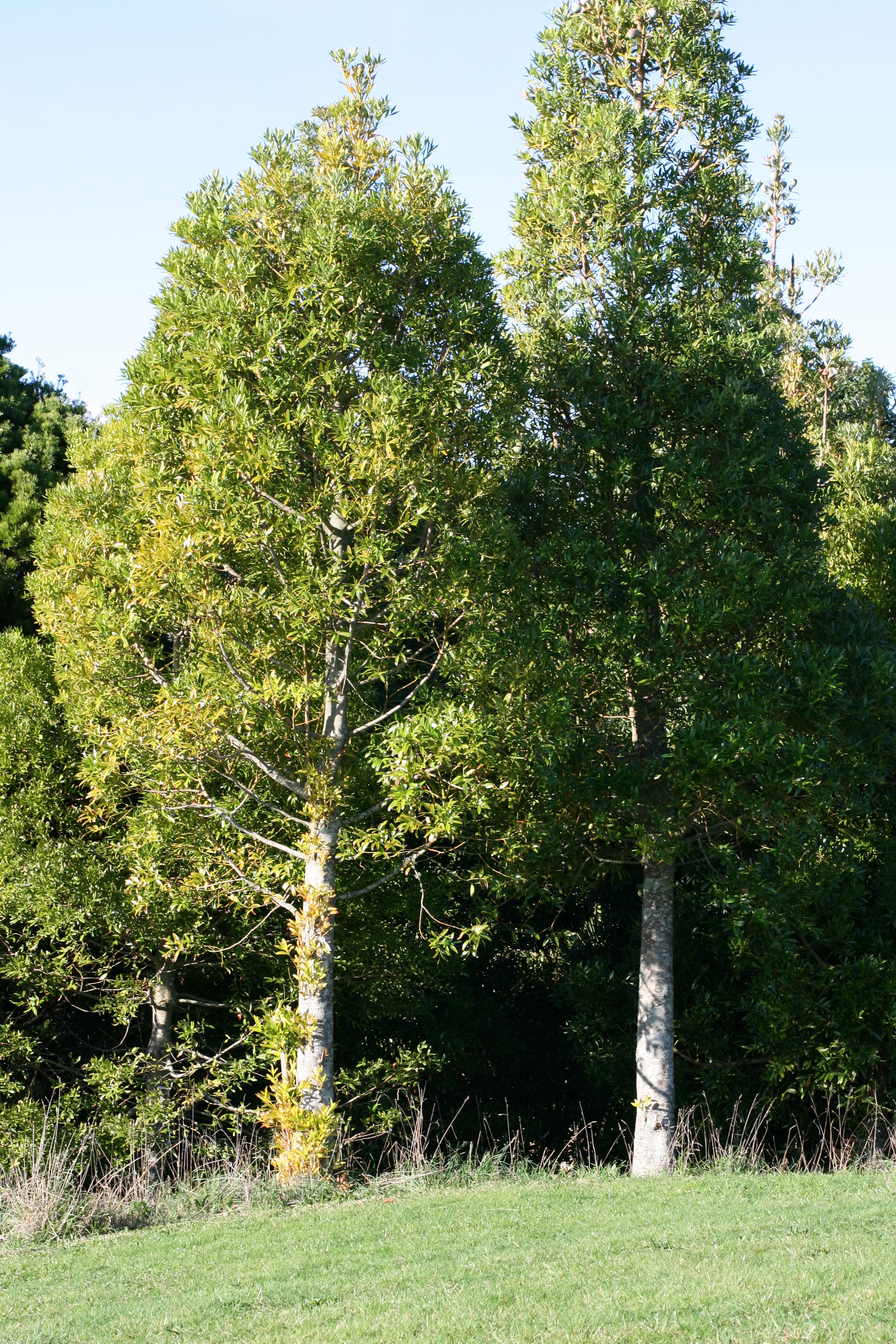 Agathis macrophylla, young trees growing at Auckland, New Zealand